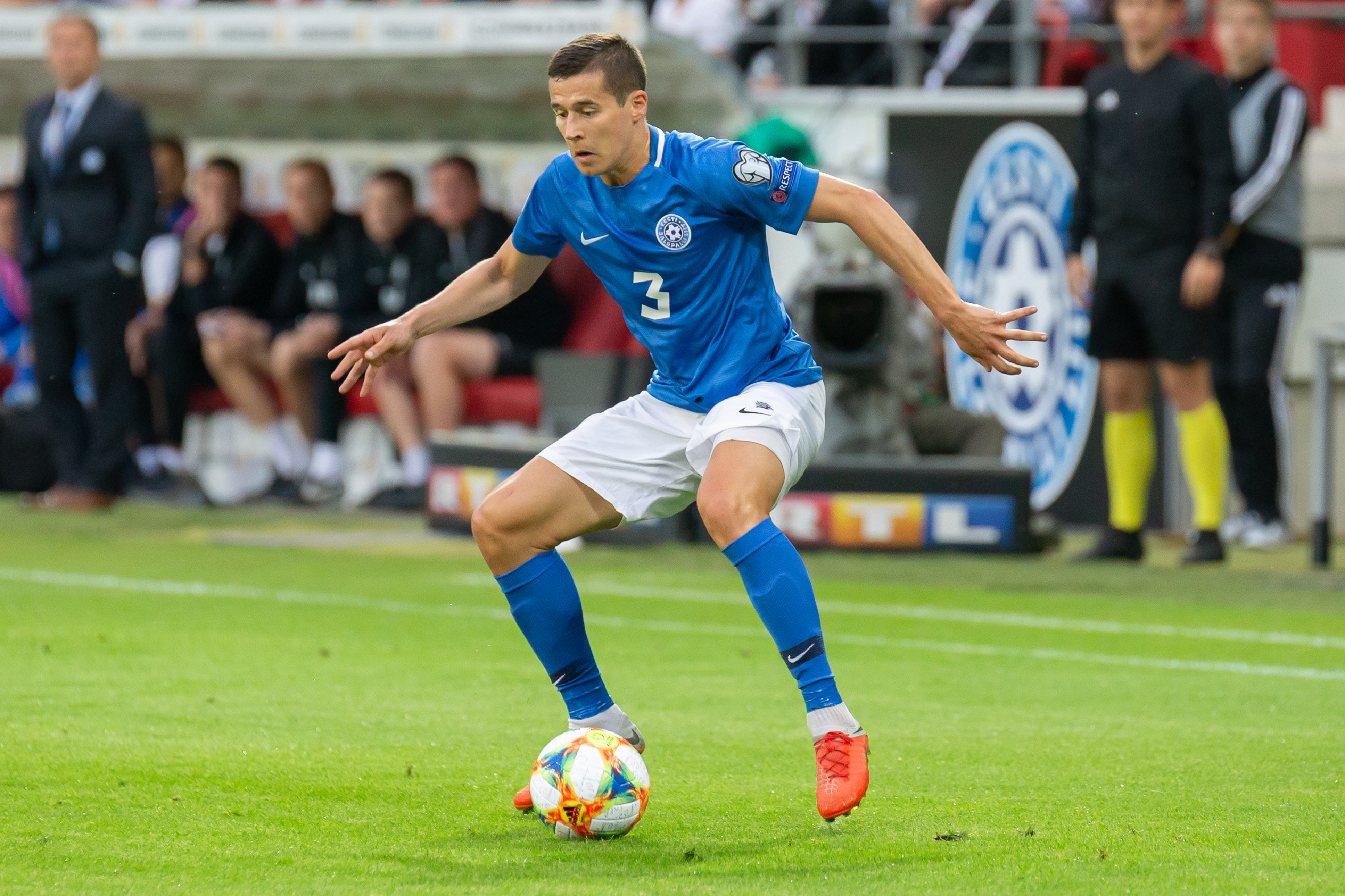 UEFA Euro 2020 qualifier Germany-Estonia